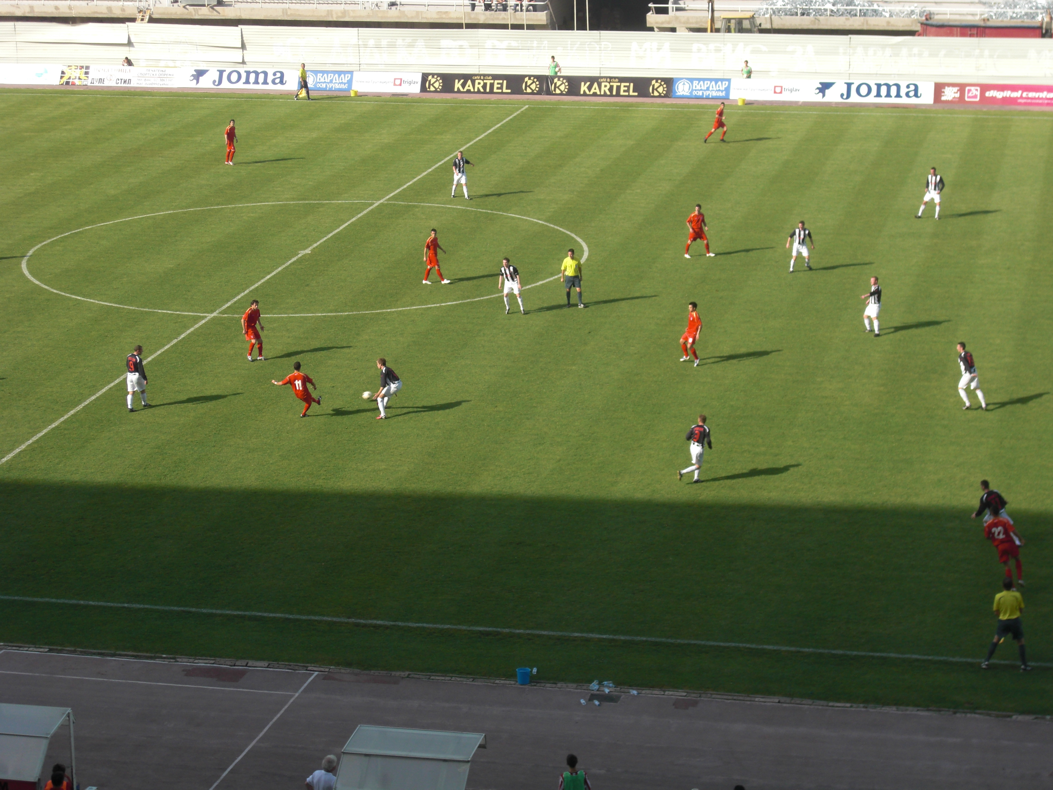 2009 UEFA Cup Qualification match between FC Rabotnicki (MKD) and Crusaders (NIR) [4-2] - Phillip II Arena, Skopje, Macedonia